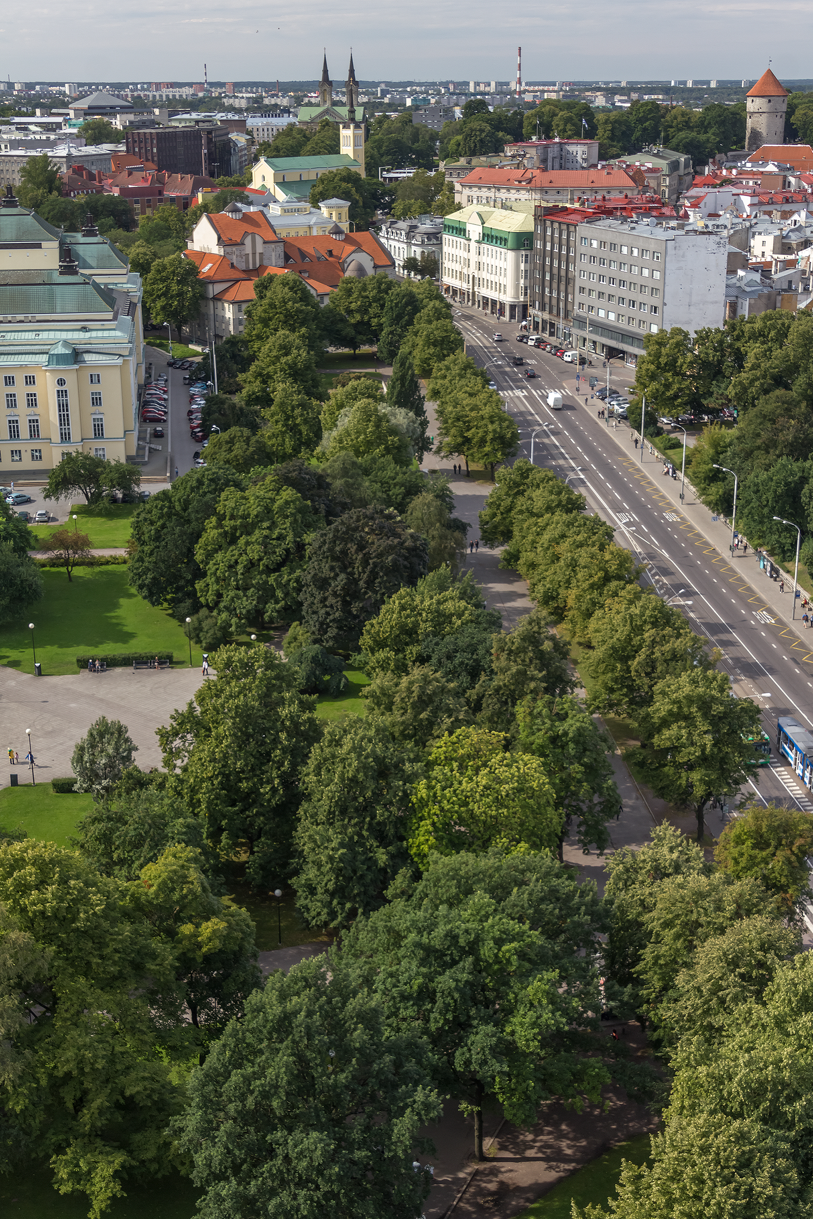 Bird's-eye view of A.H. Tammsaare Park in Tallinn, August 2012